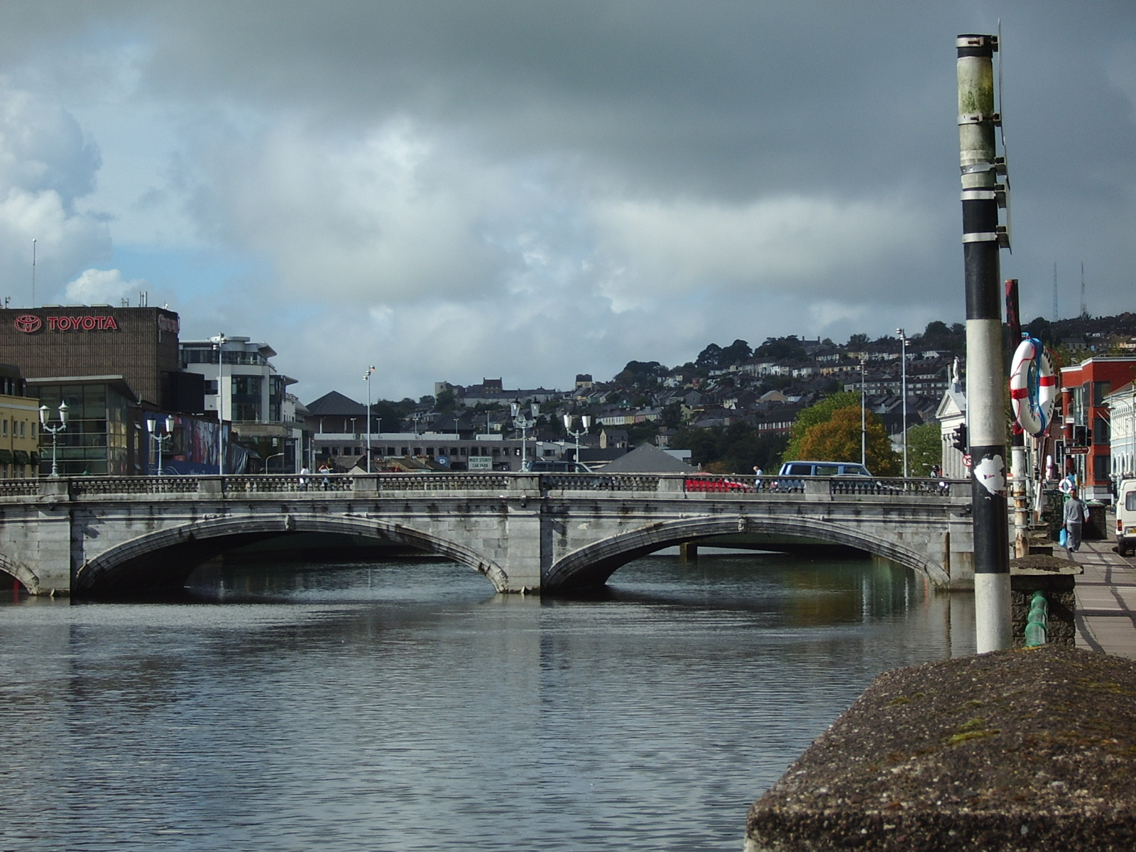 Cork and ricer Lee